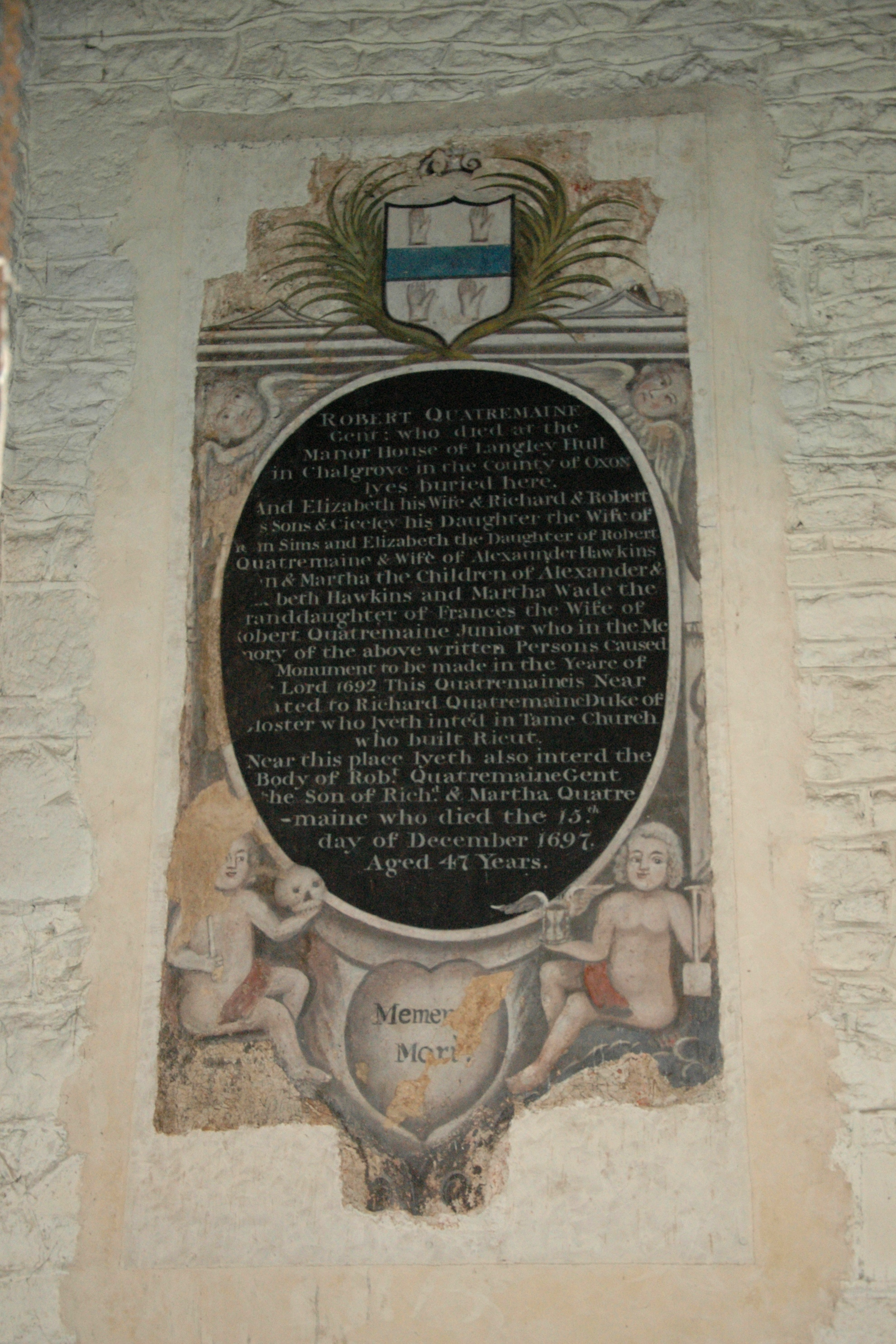 Church of England parish church of St Mary the Virgin, Chalgrove, Oxfordshire: monument to Robert Quatremaine, died 1697. This monument is a mural, painted to resemble a monument carved from stone.